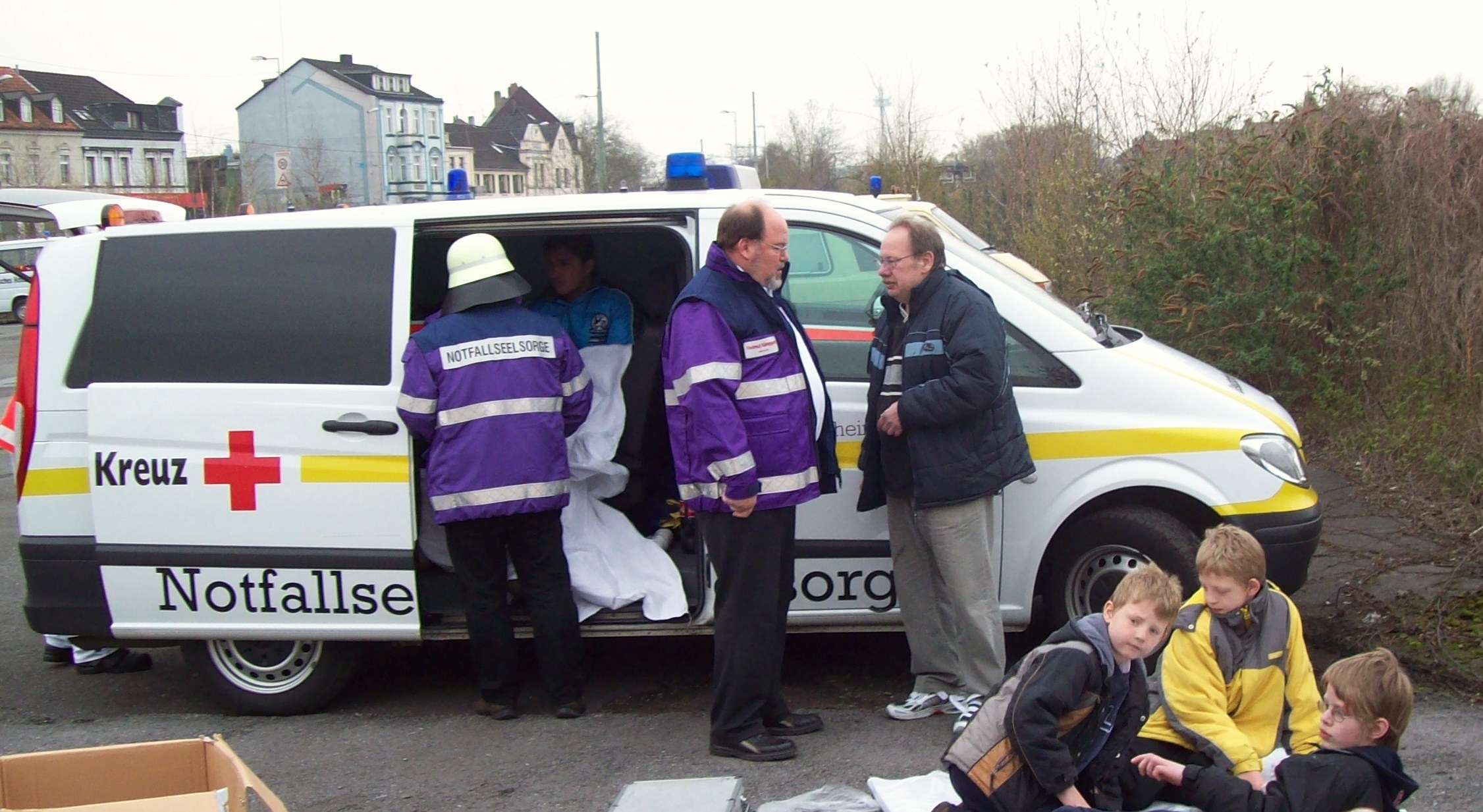 Emergency services in Germany